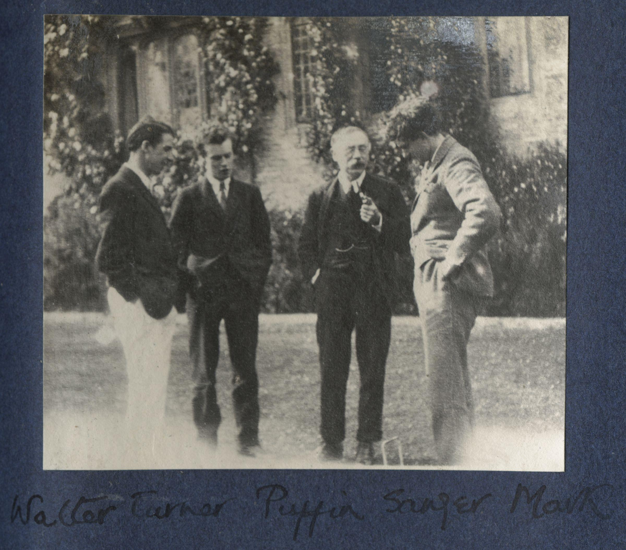 Walter James Redfern Turner; Anthony Asquith; Charles Percy Sanger; Mark Gertler, by Lady Ottoline Morrell (died 1938).